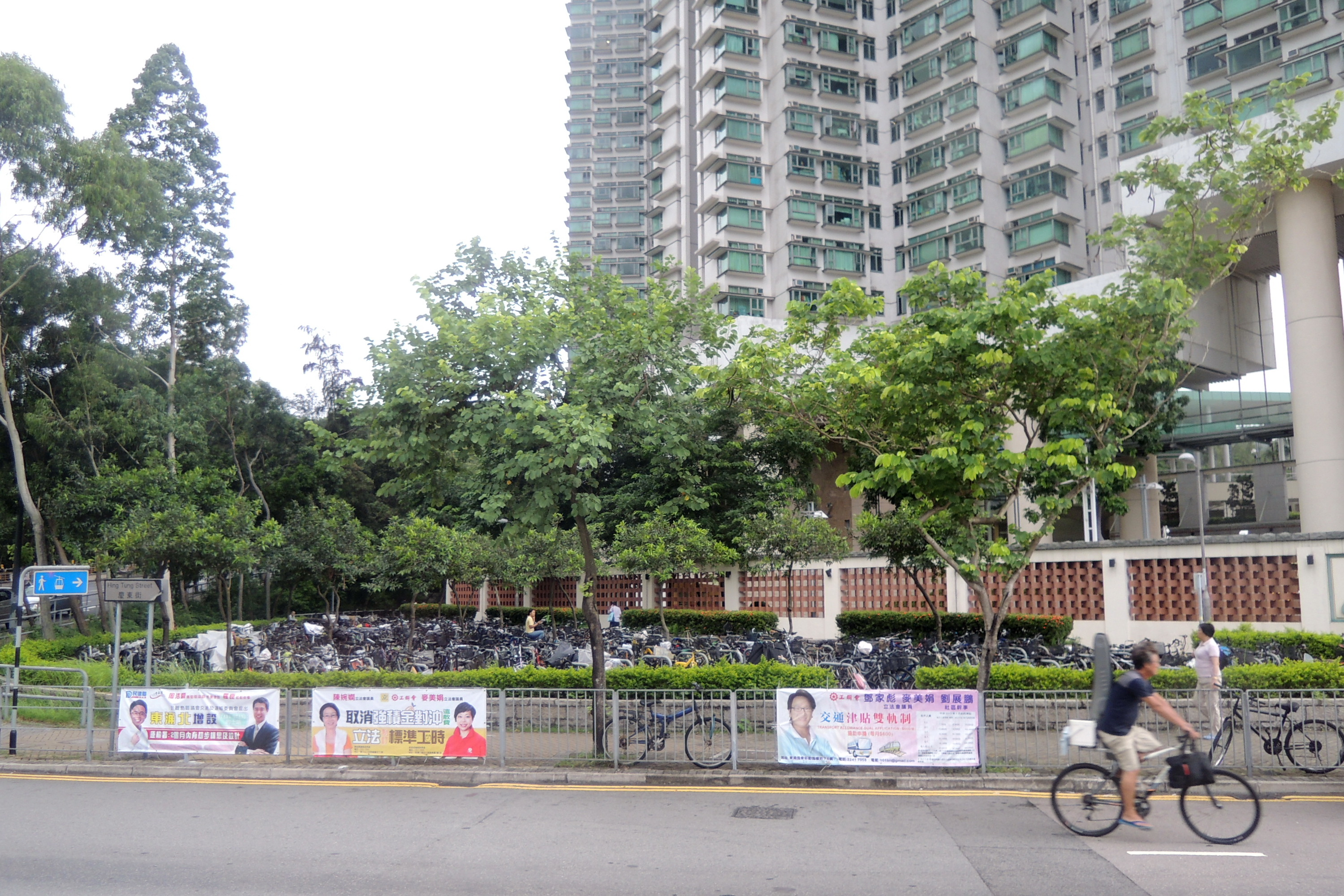 Hing Tung Street, Tung Chung, Hong Kong.